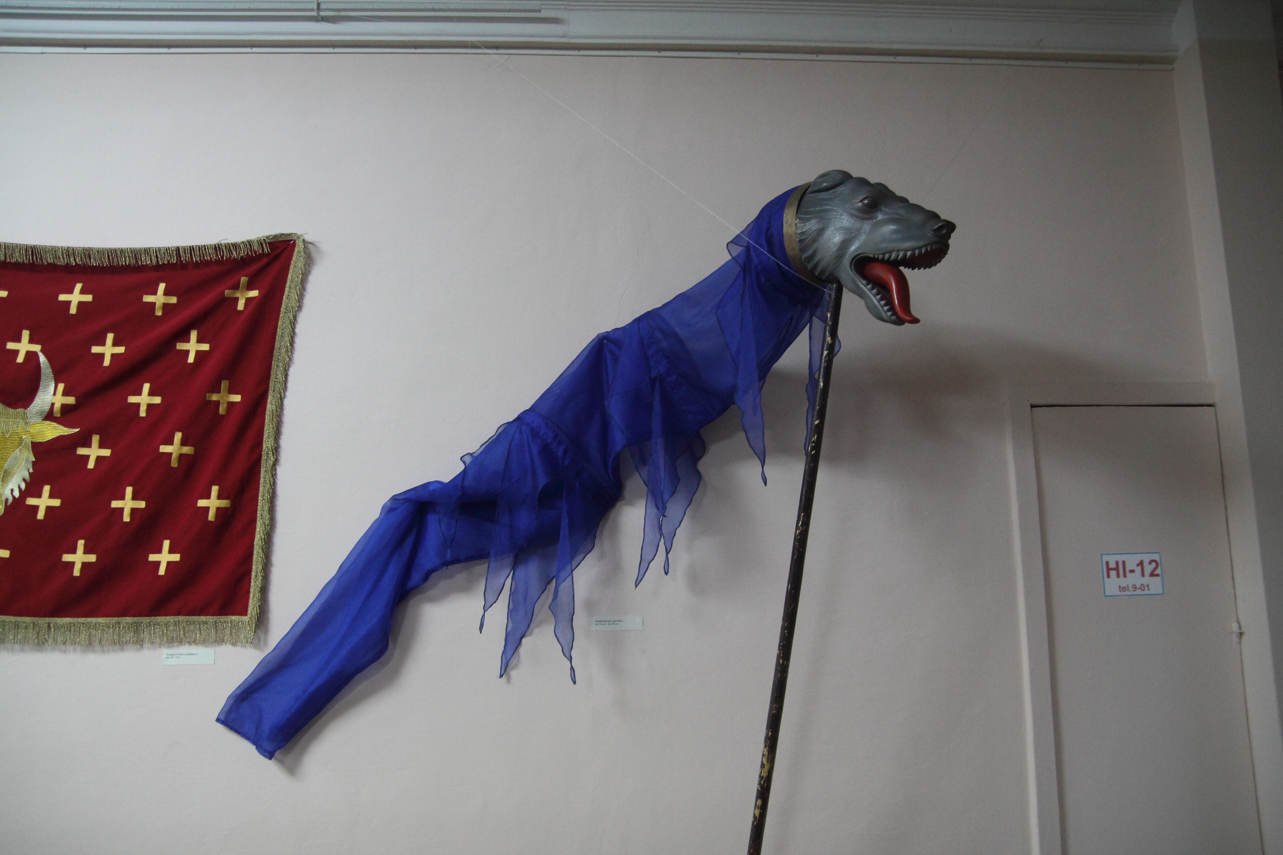 Expozitiile permanente Muzeul de Istorie din Chisinau